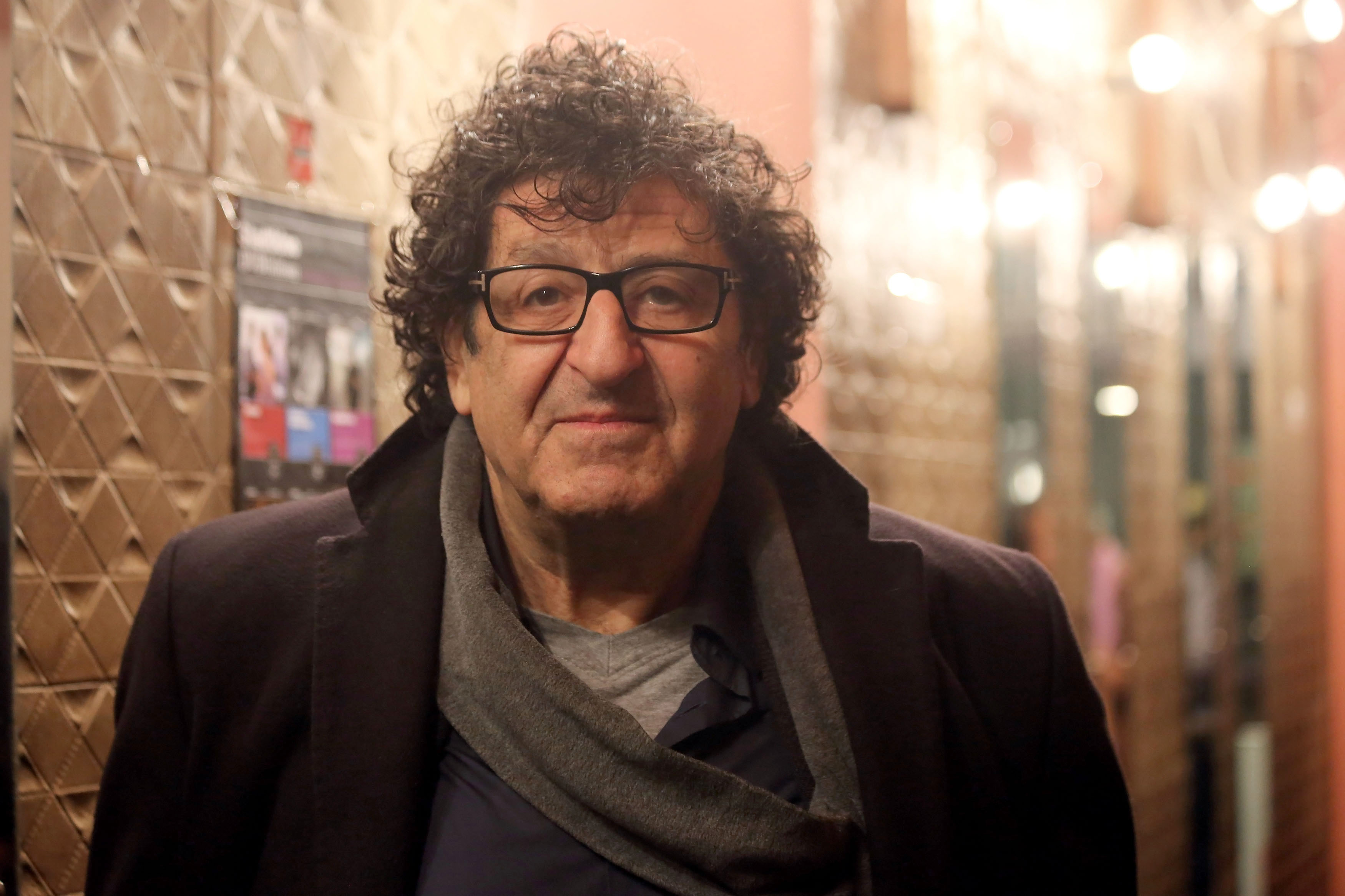 Robert Schindel at Vienna International Film Festival 2012 (Stadtkino).